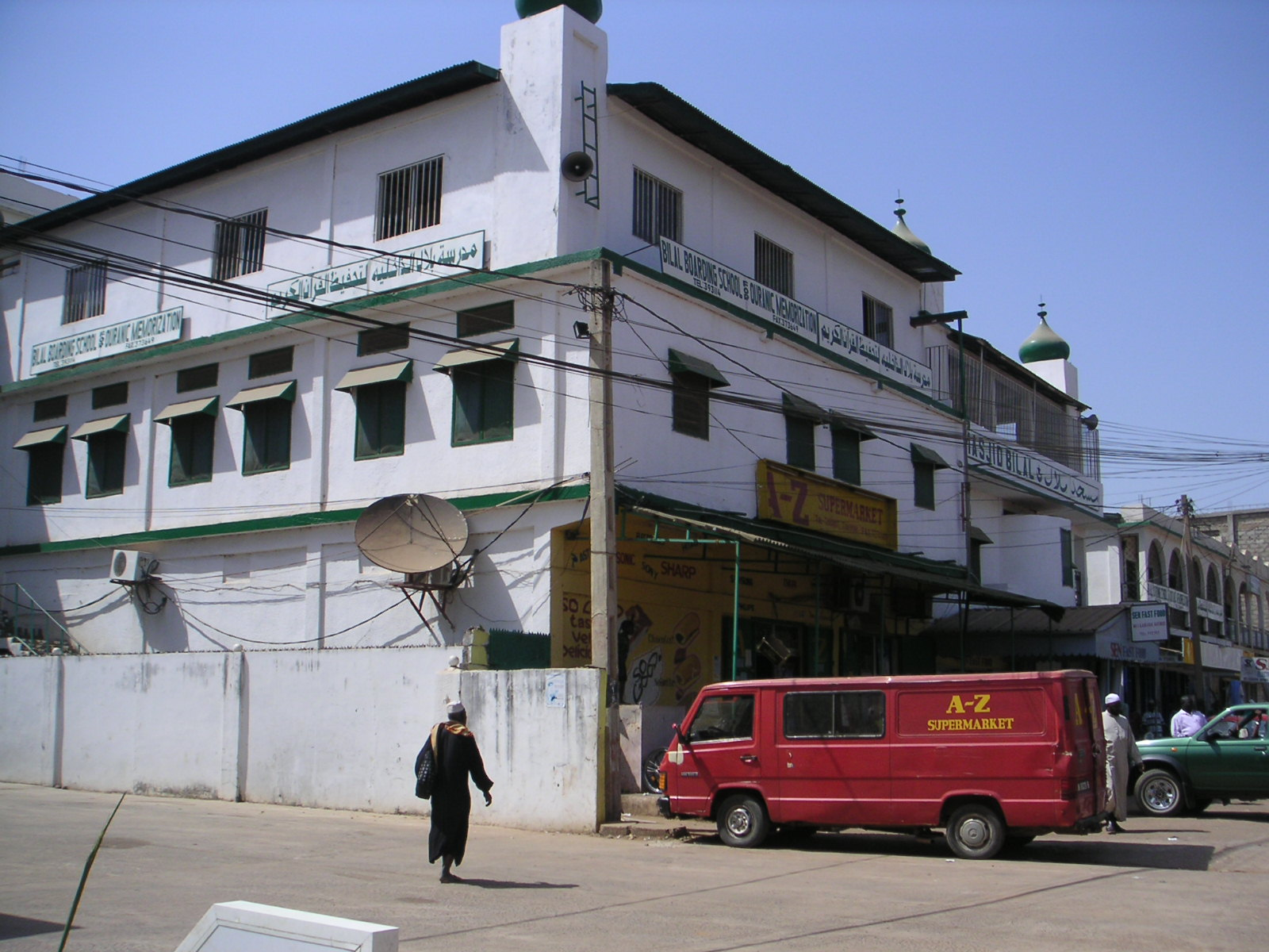 Bilal Boarding School for Quranic Memorization and Masjid Bilal - Madrassa and mosque in Serrekunda, Gambia. Photo: Soman